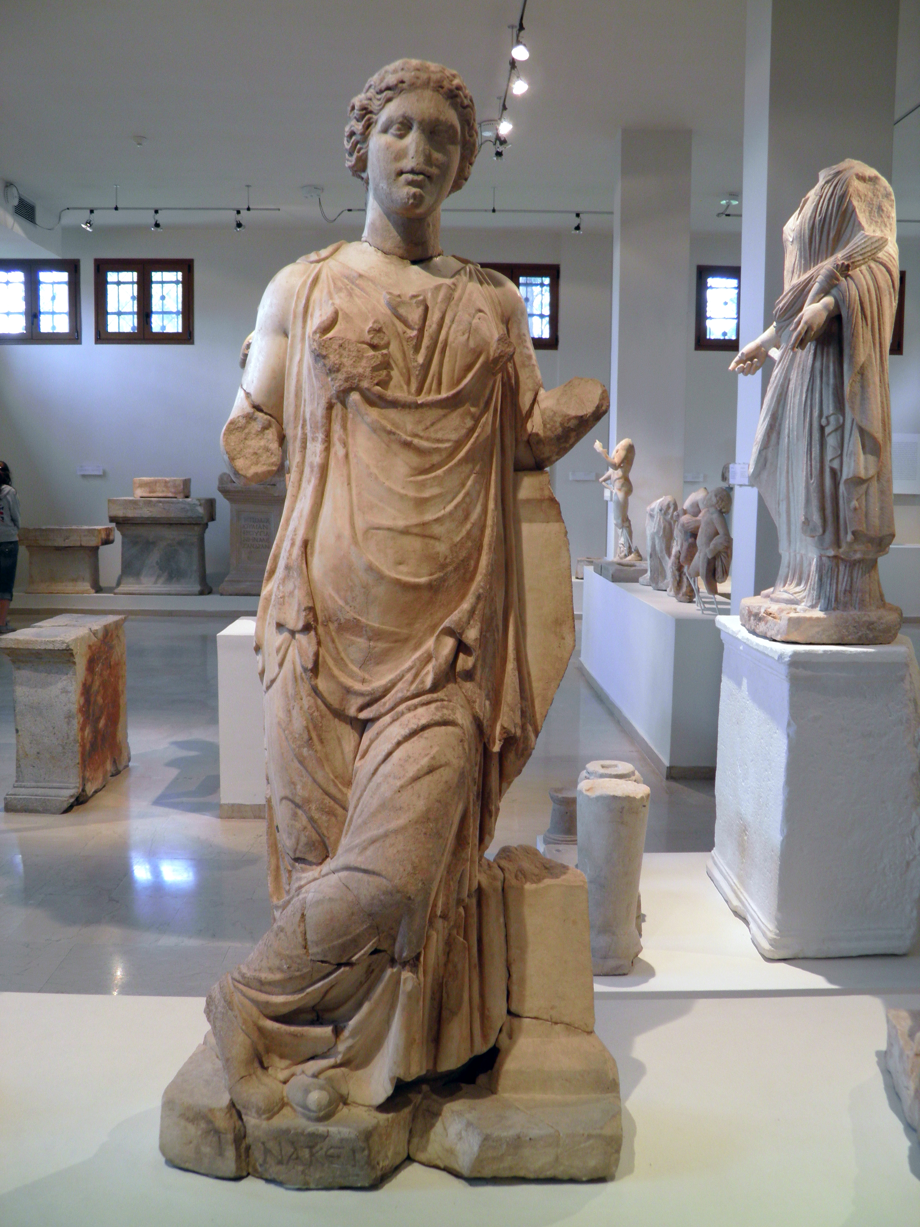 The children of Asklepios, Panakeia, 2nd c. AD, Archaeological Museum, Dion